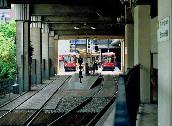 Midland Metro terminus, Snow Hill Railway Station Since the Metro line from Wolverhampton to Birmingham opened in May 1999, it has terminated in Snow Hill Railway Station, where it uses two dedicated platforms. In this view taken a few weeks after opening, trams 15 (left) and 13 are waiting at the platforms. After years of discussion and planning, it looks very hopeful that the line may be extended to terminate at New Street Railway Station. If so, then probably the Snow Hill terminus will no longer be required.